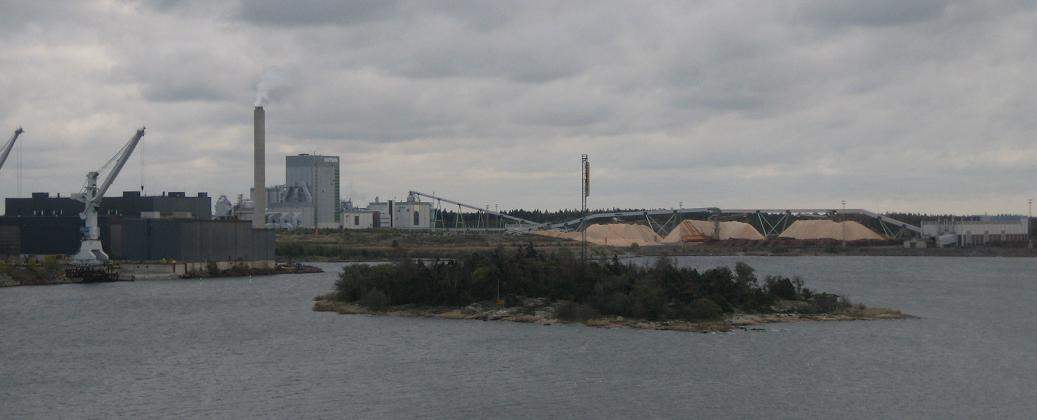 Oy Metsä-Botnia Ab pulp mill in Rauma, Finland